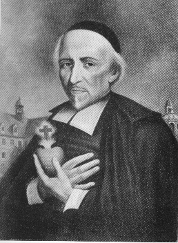 Jean Eudes (1601-1688)